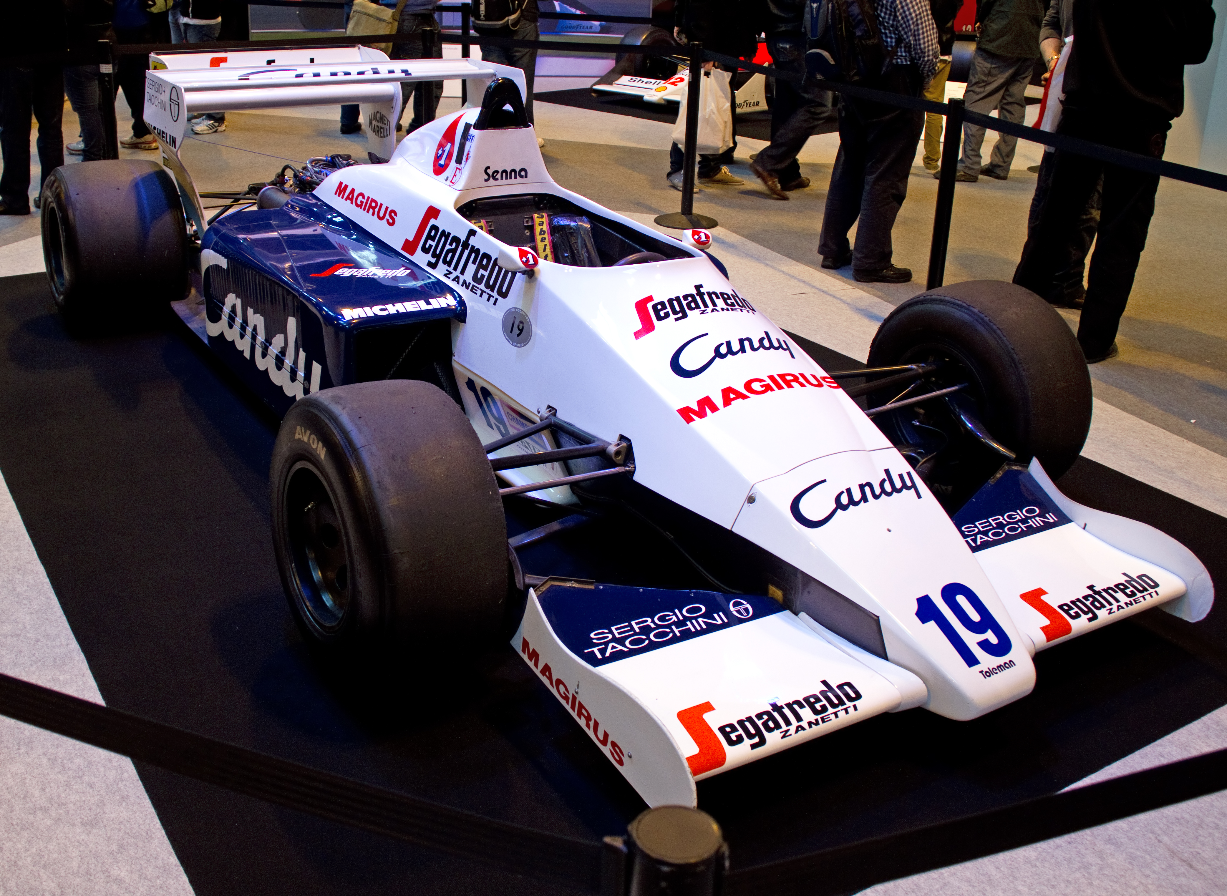 1984 Toleman TG184 (driven by Ayrton Senna), at the 2012 Autosport International.